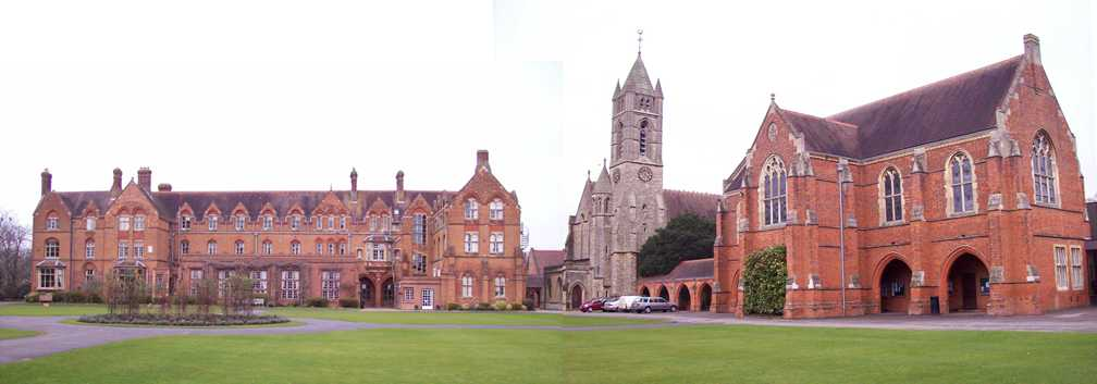 Main quad, Summertown, Oxford